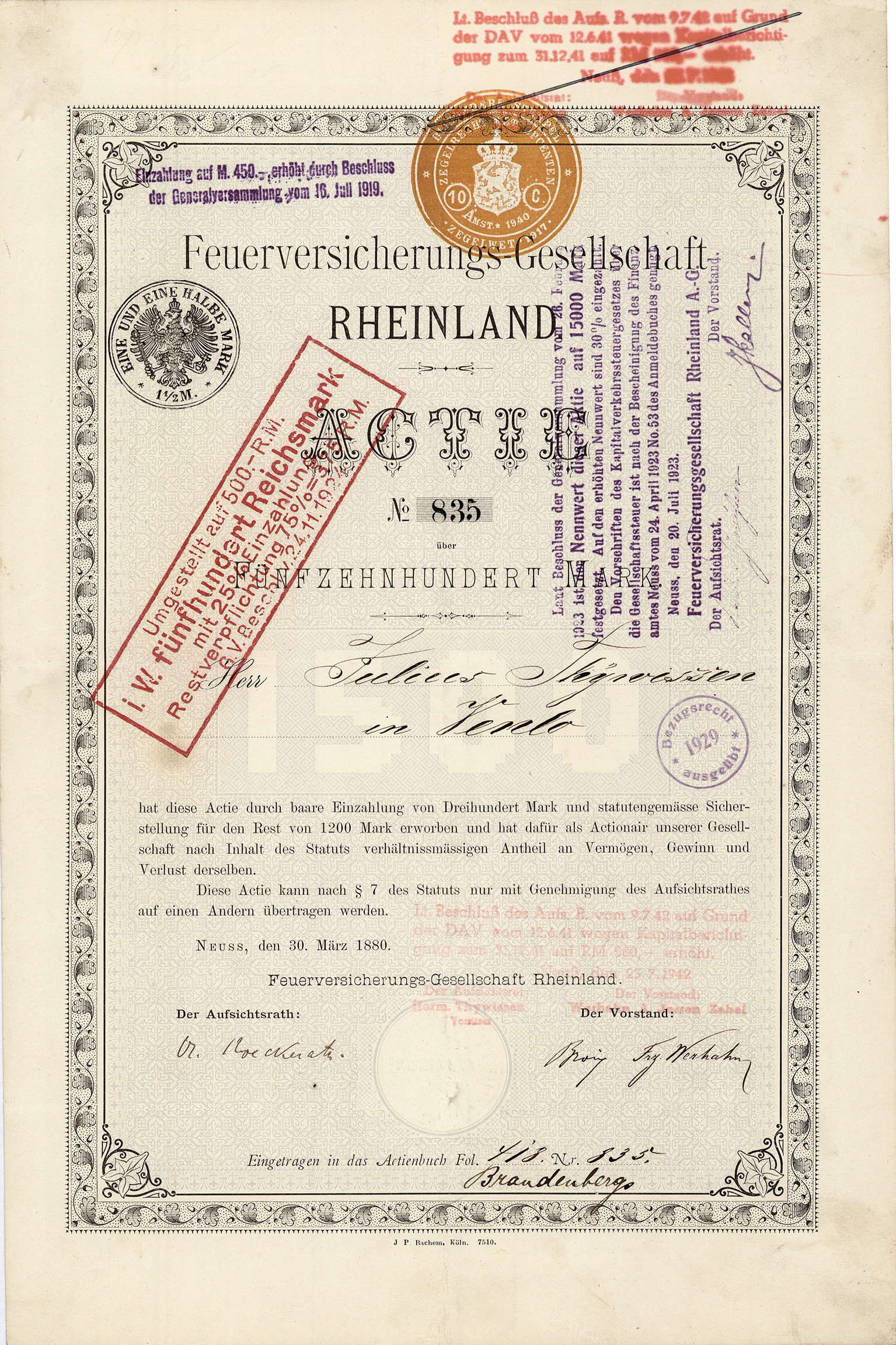 Share of the Feuerversicherungs-Gesellschaft Rheinland, issued 30. March 1880